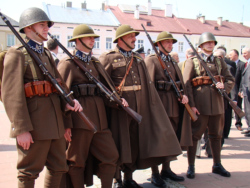 Feast of the Union of Soldiers of the Polish Army in Sanok